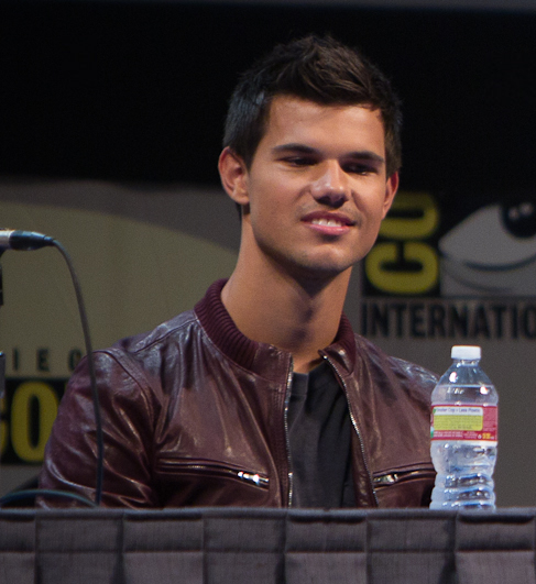 Taylor Lautner at the Comic-Con 2011.